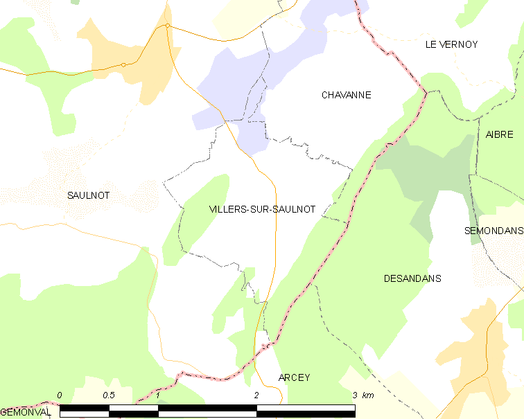 Map of French municipality